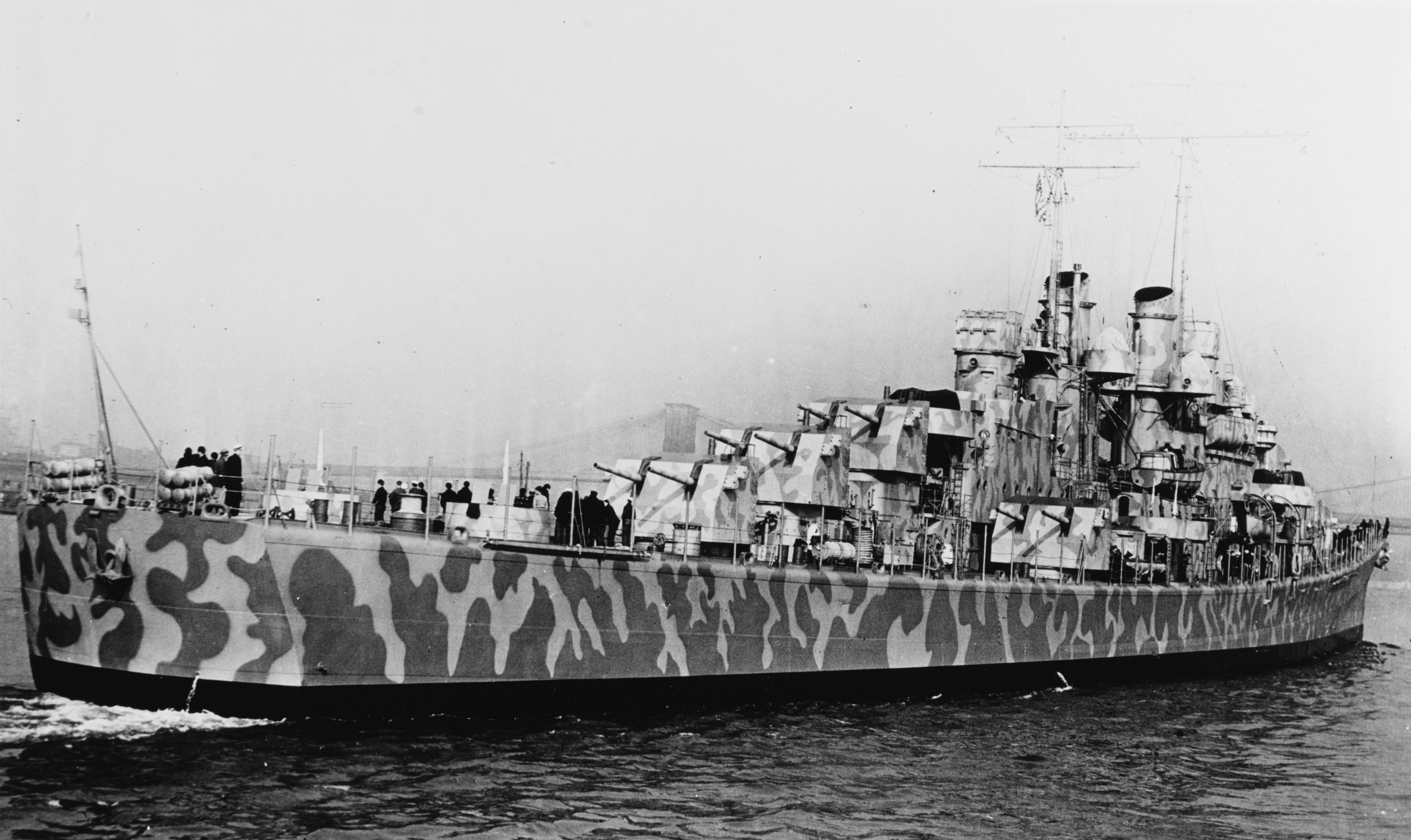 USS Juneau (CL-52) in New York Harbor, 11 February 1942. Note camouflage scheme applied to this newly-completed cruiser. Photograph from the Bureau of Ships Collection in the U.S. National Archives.